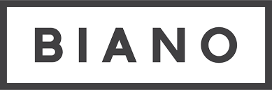 Furniture marketplace logo BIANO